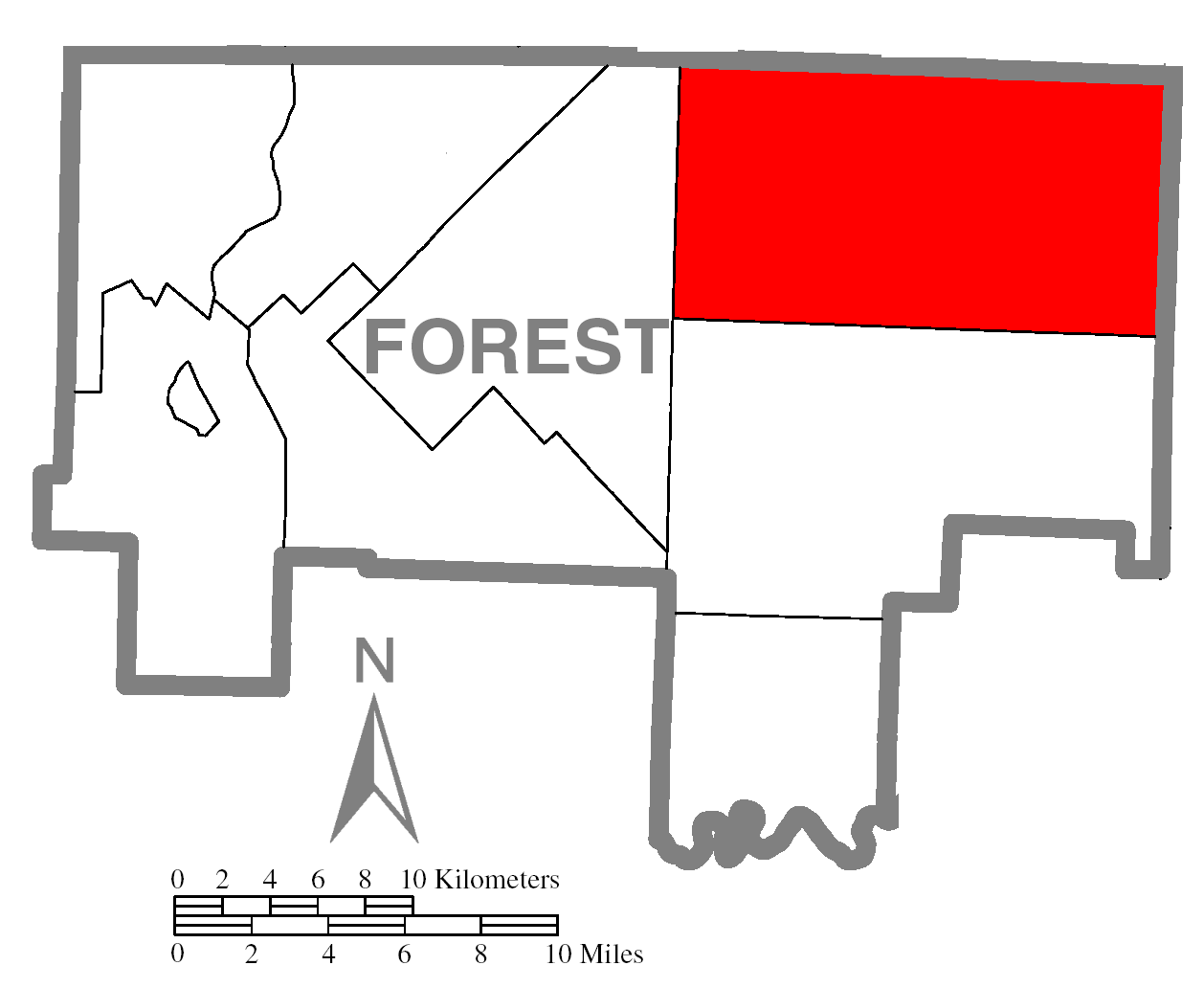 A map of Forest County showing Howe Township, Pennsylvania (alternate) highlighted on the map.